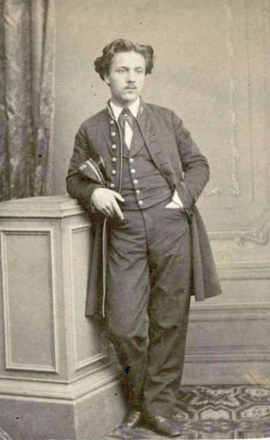 Gabriel Fauré in the uniform of a student at the Ecole Niedermeyer, photographed by Charles Reutlinger (1816–1880) in 1864